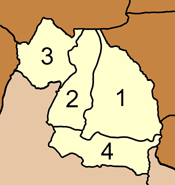 Map of Plai Phraya district, Krabi province, Thailand, with the communes (tambon) numbered. Plai Phraya (ปลายพระยา) Khao Khen (เขาเขน) Khao To (เขาต่อ) Khiri Wong (คีรีวง)